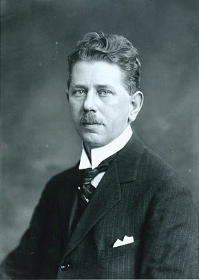 Danish architect Emanuel Monberg (1877-1938)